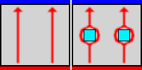 It shows the way the thermal goes throw a solid brick and throw a punched brick.